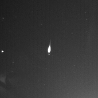 View of the sky using a wide field camera at Ladd Observatory. The exposure time is 10 seconds. The bright streak to the left of center is a satellite flare from Iridium 39 which has an apparent magnitude of about -5.